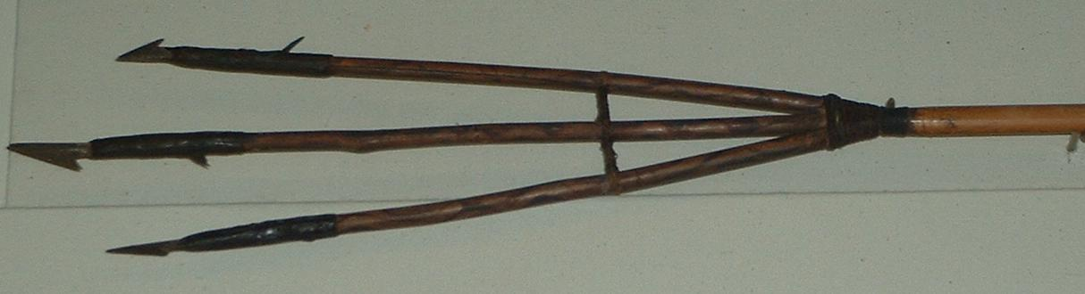 Photographed at the Royal Albert Memorial Museum & Art Gallery (RAMM) on 21-Feb-06. Legend reads: Guyana. Arrow with three prongs carrying three barbed points. For catching fish in rivers.